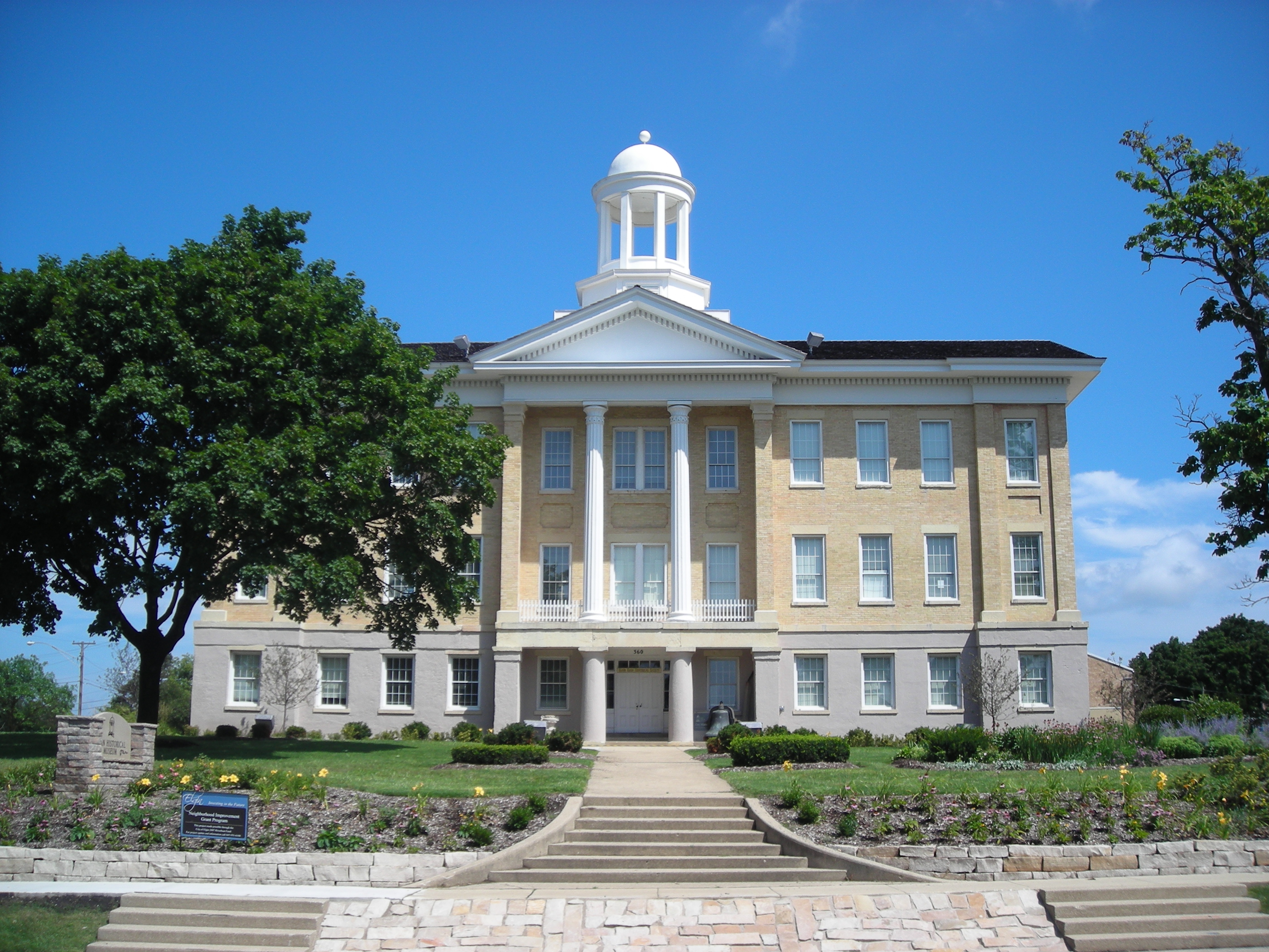 Elgin Historical Museum. Elgin, Kane County, Illinois. National Register of Historic Places.